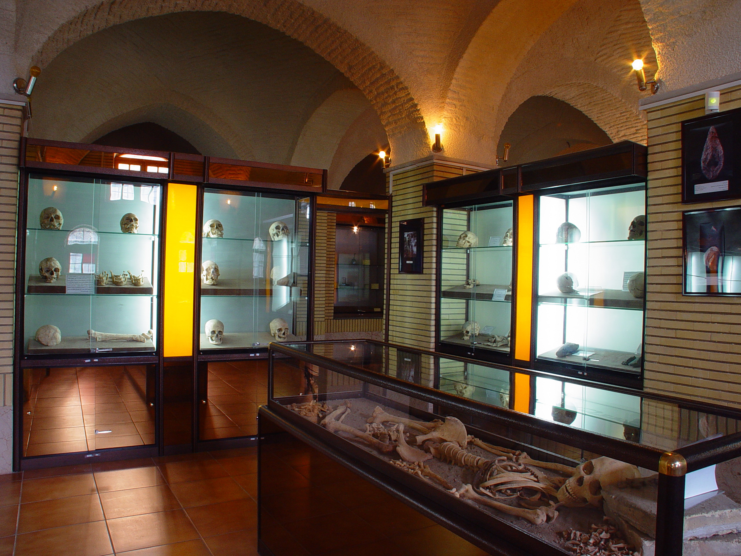 The Iranian National Museum Of Medical Sciences History, Tehran; Iran (By Dr. Maziar Ashrafian Bonab)